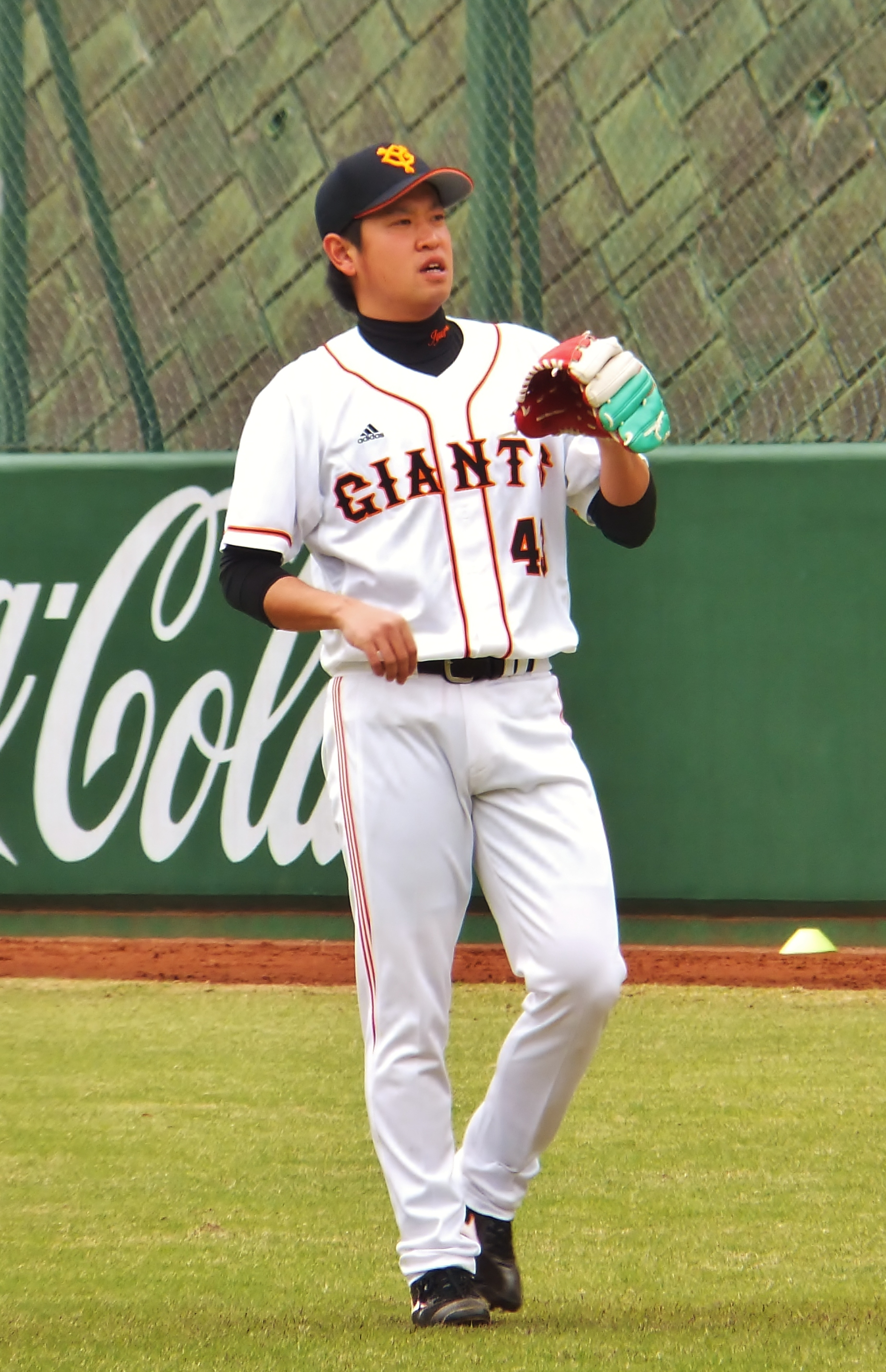 Jumpei Ono